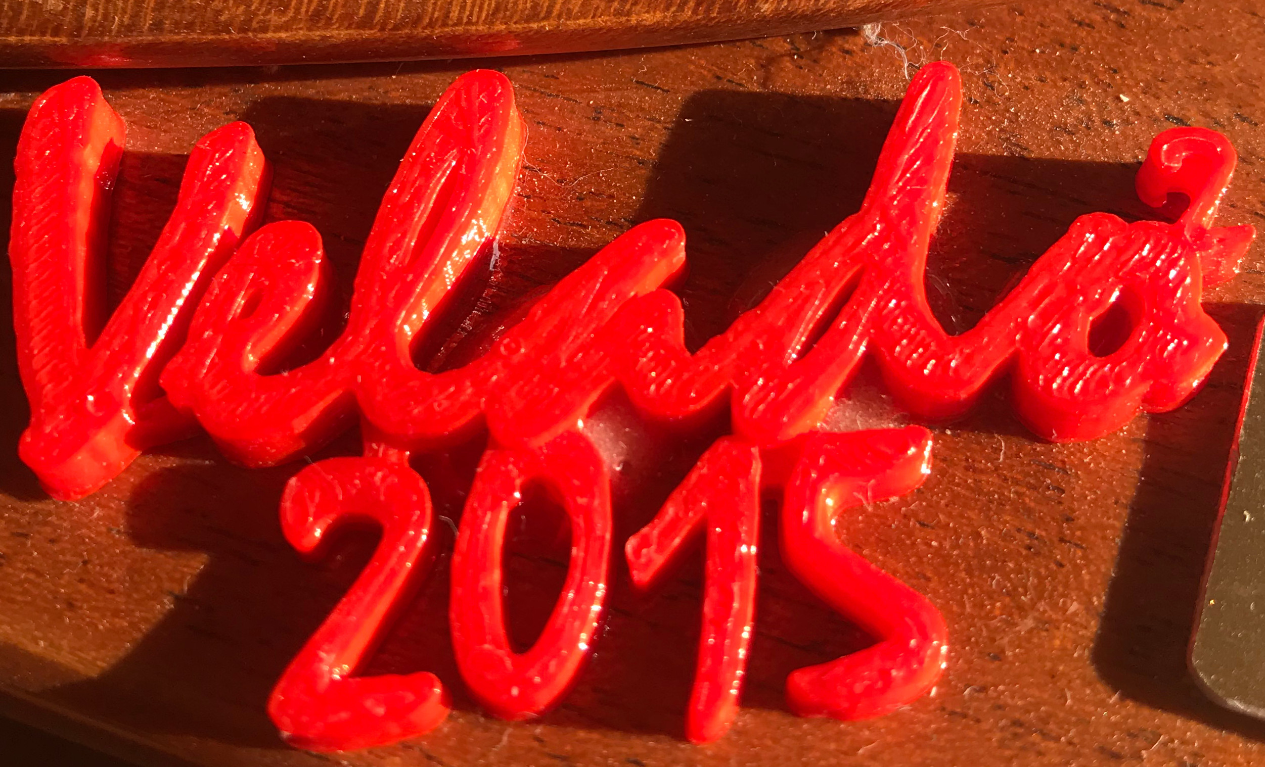 Patch on the trophy